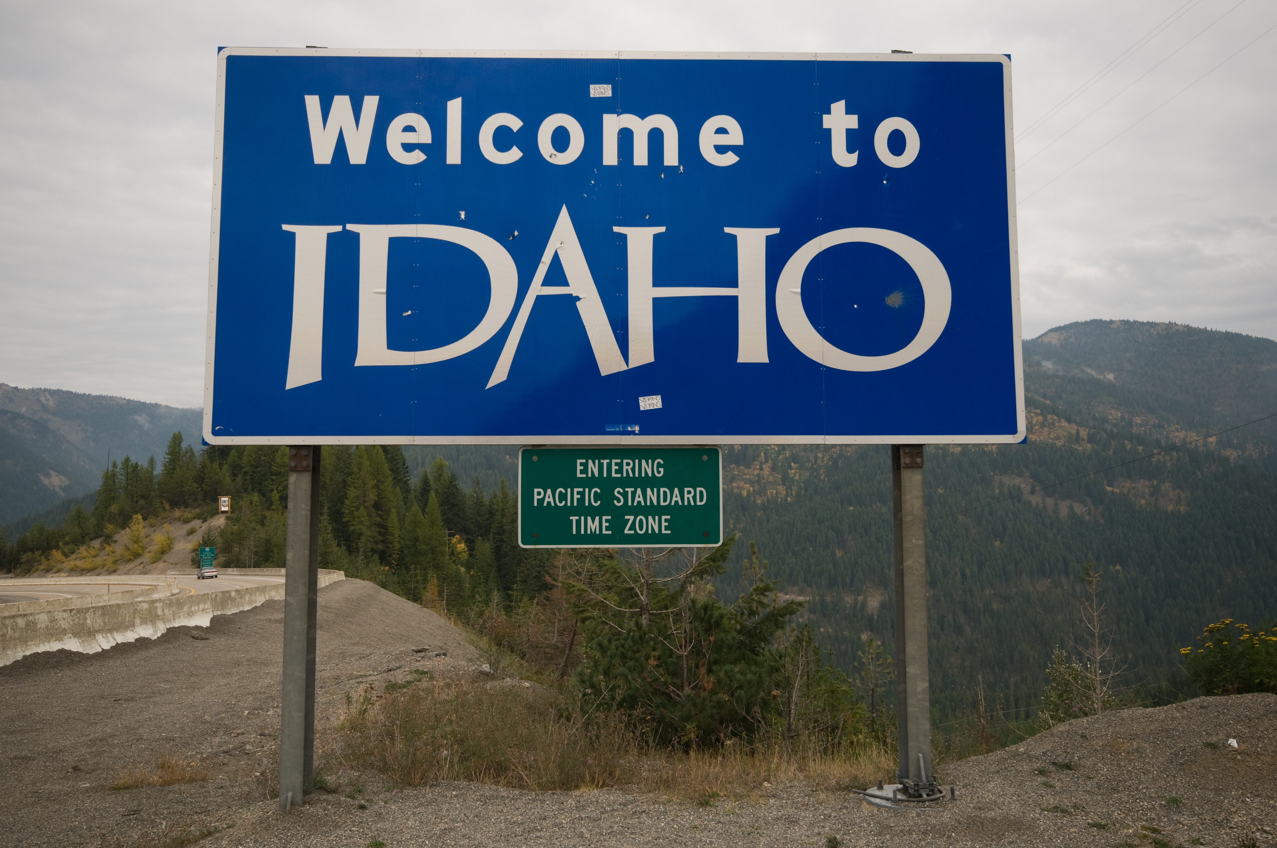 "Welcome to Idaho" sign along I-90 at the border with Montana.